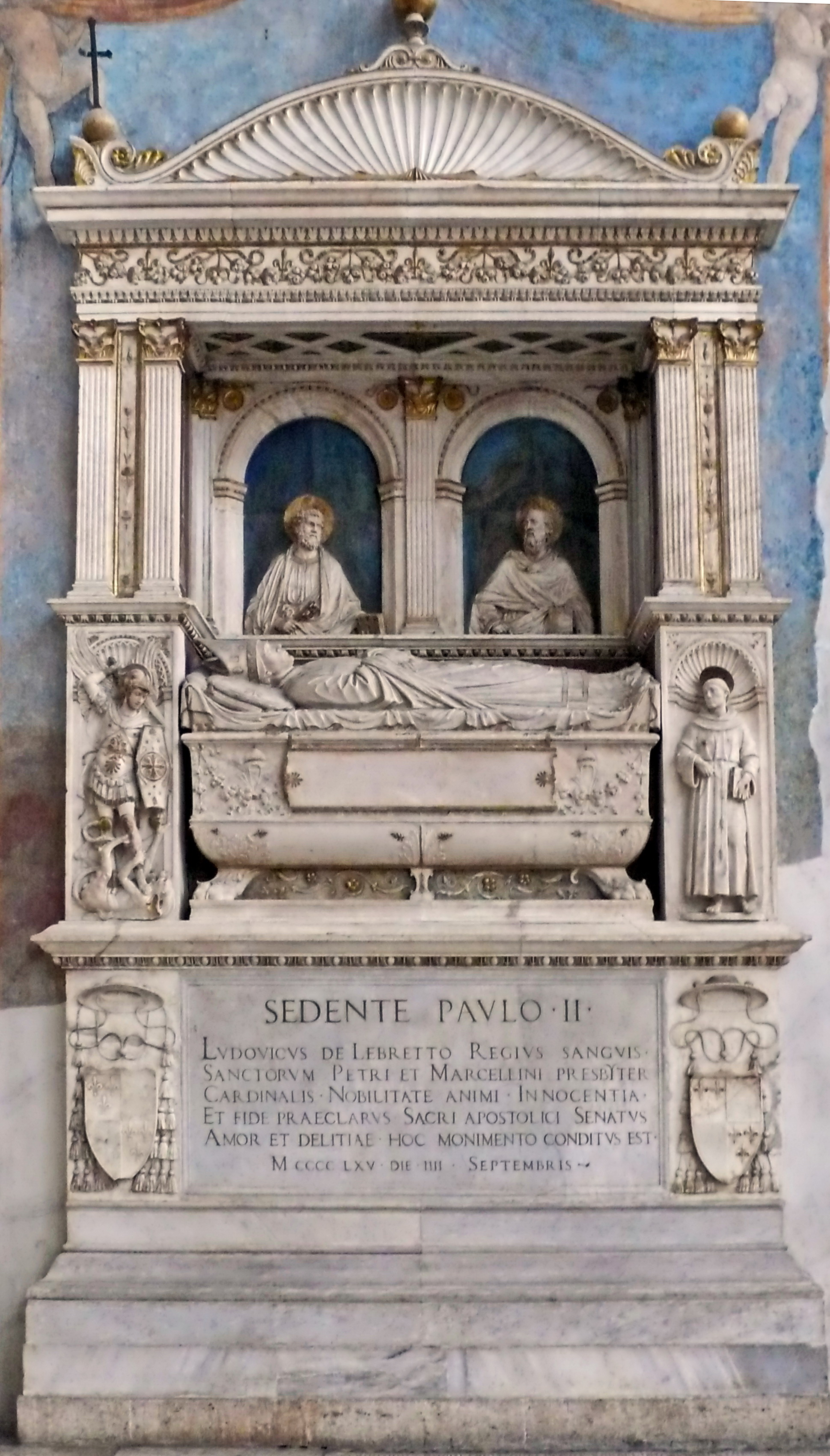 Funeral monument for Cardinal Lodovico d'Albret (Lebretto); Santa Maria in Aracoeli, Rome